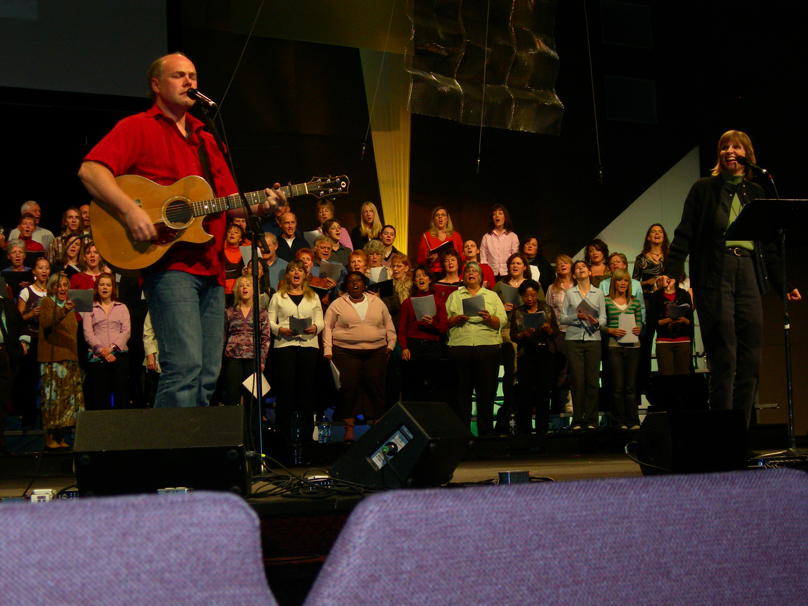 Brian Doerksen Leading Worship - GMA Week 2007 Calgary